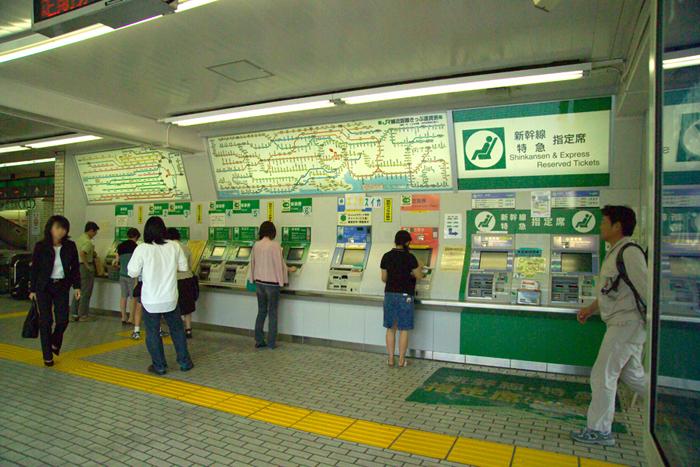 Ticket machines of JR East (East Japan Railway Company) at Iidabashi Station, Tokyo, Japan. I took this photo and contribute my rights in the file to the public domain; individuals and organizations retain rights to images in it.